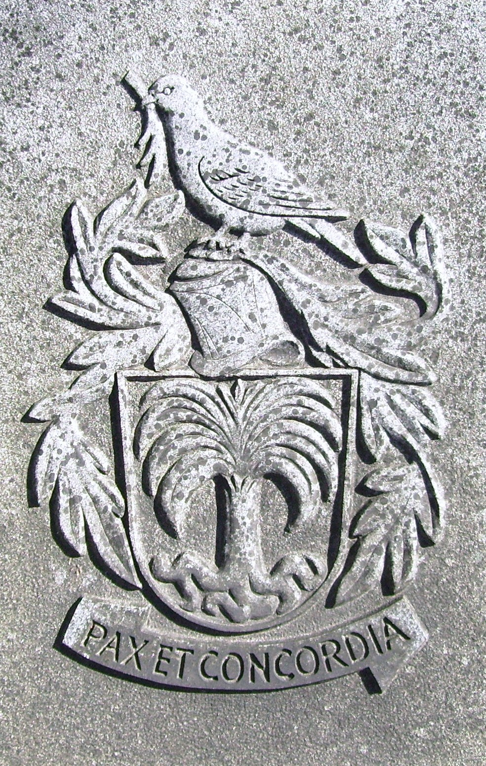 Picture of detail on Dahlerus family grave at Lidingö graveyard. Pax et concordia.